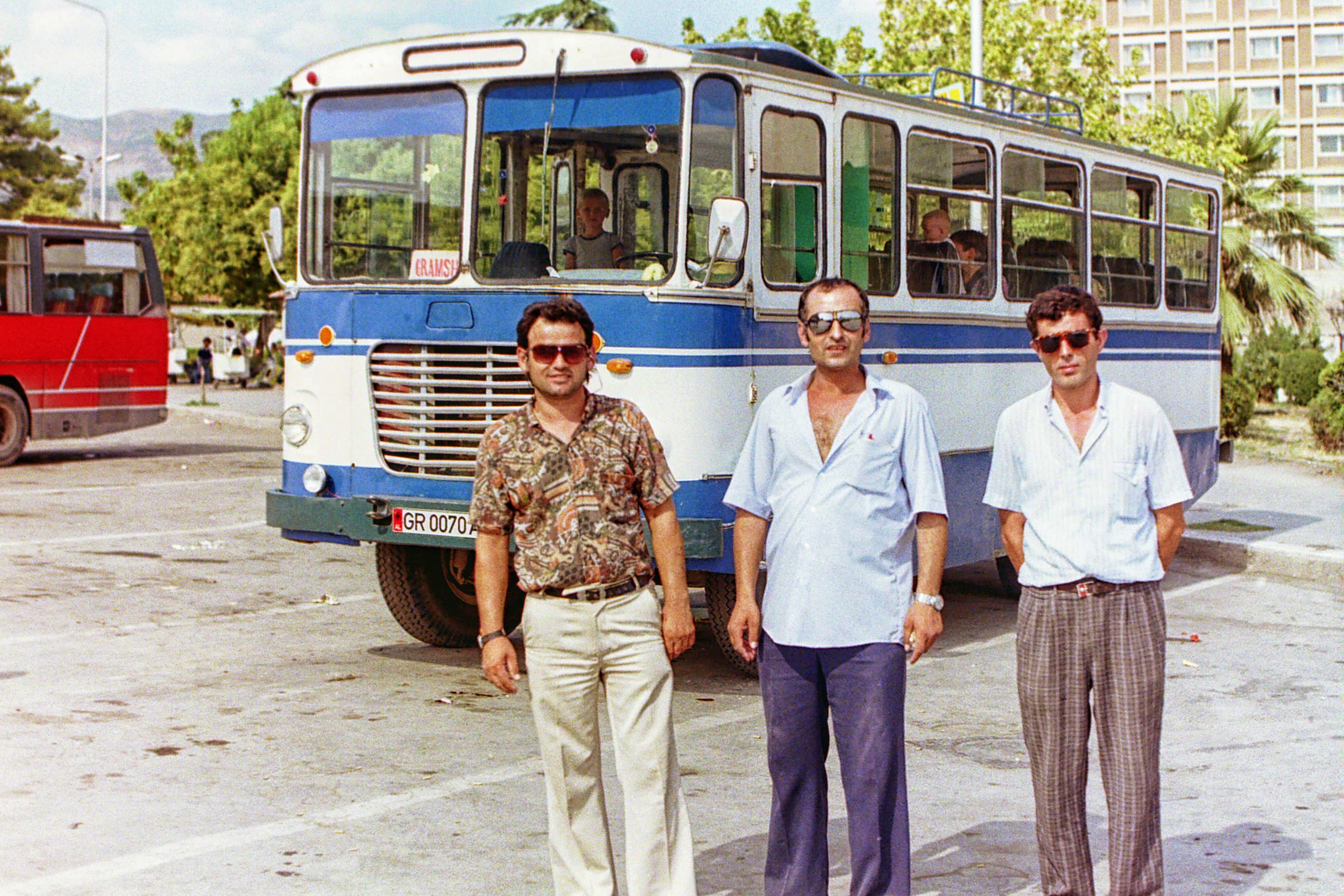 Bus drivers in Elbasan, Albania